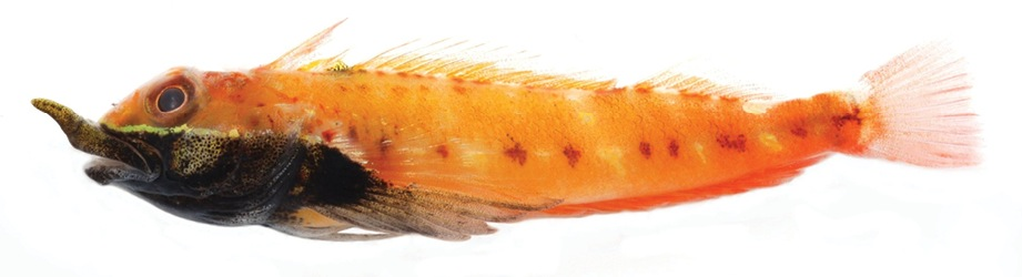 Helcogramma rhinoceros, NTOU-P 2009-06-043, 29.6 m SL, Feng-chui-sha, Pingtung, Taiwan.